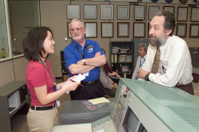 NASA flight controller Seymour Liebergot is standing second from left in this picture. Libergot was one of the flight controllers who helped guide Apollo 13 back to Earth after the explosion in the cryo-tanks. Original caption: "Debbie Nguyen taps into the memories of Seymour Liebergot and John W. Jurgensen, two Apollo flight controllers"